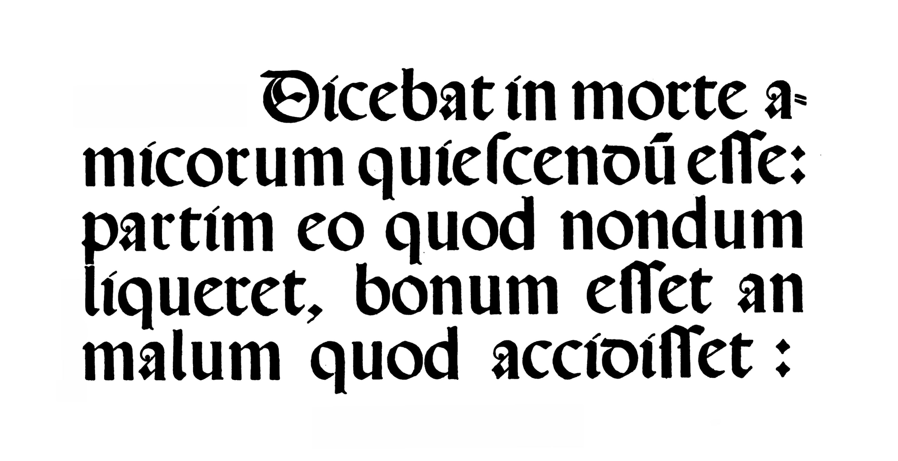 A Spanish-style blackletter made around the 1570s by engraver Hendrik van den Keere.